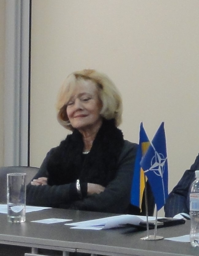 Senator Raynell Andreychuk, Odesa, NATO-Ukraine Inter-Parliamentary Council, March 6, 2018